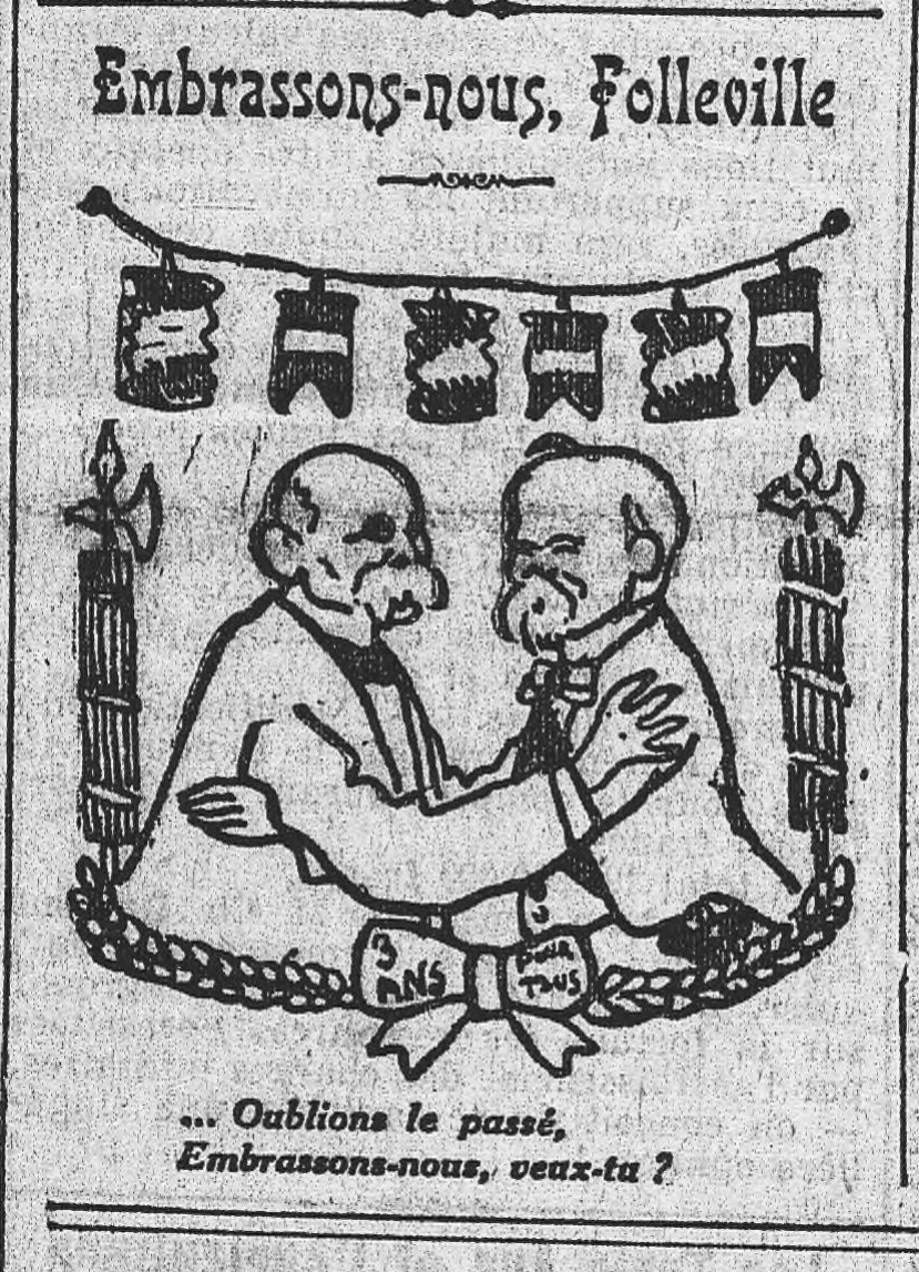 Extract of a caricature in L'Humanité (27 May, 1913) of Clemenceau and Poincaré. The whole caricature, titled "Embrassons-nous, Folleville", has the legend: "Forget the past... Let's embrace us, will you?" and his depicting Poincaré and Clemenceau's alliance in order to passe the three years-law of July 1913, increasing conscription time from two to three years (see URL of origin).